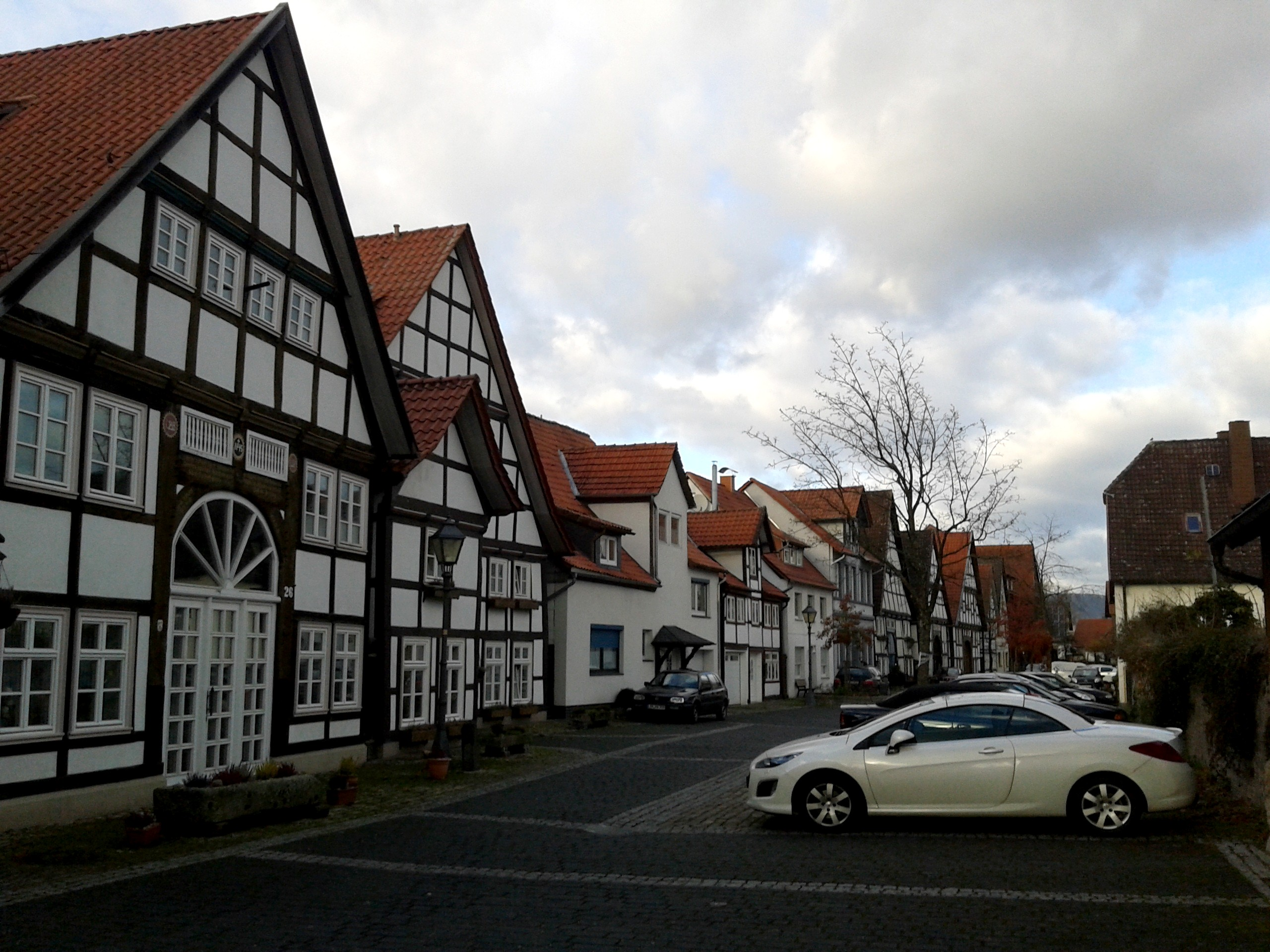 View to north